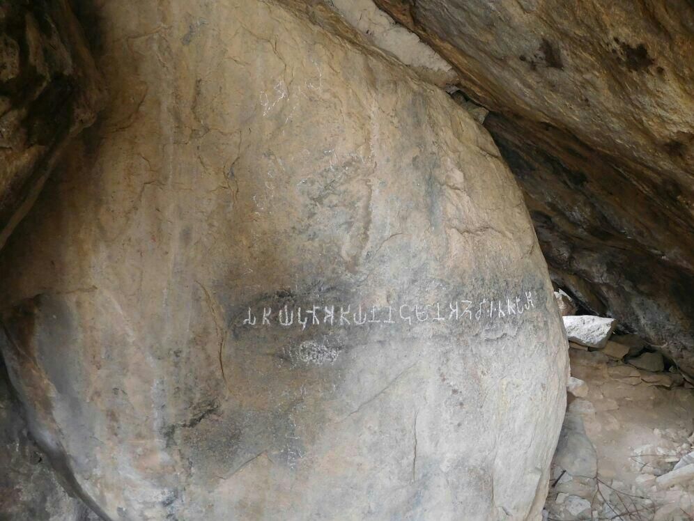 Inscription in Jambai, Tirukoviloor, Tamilnadu showing the following